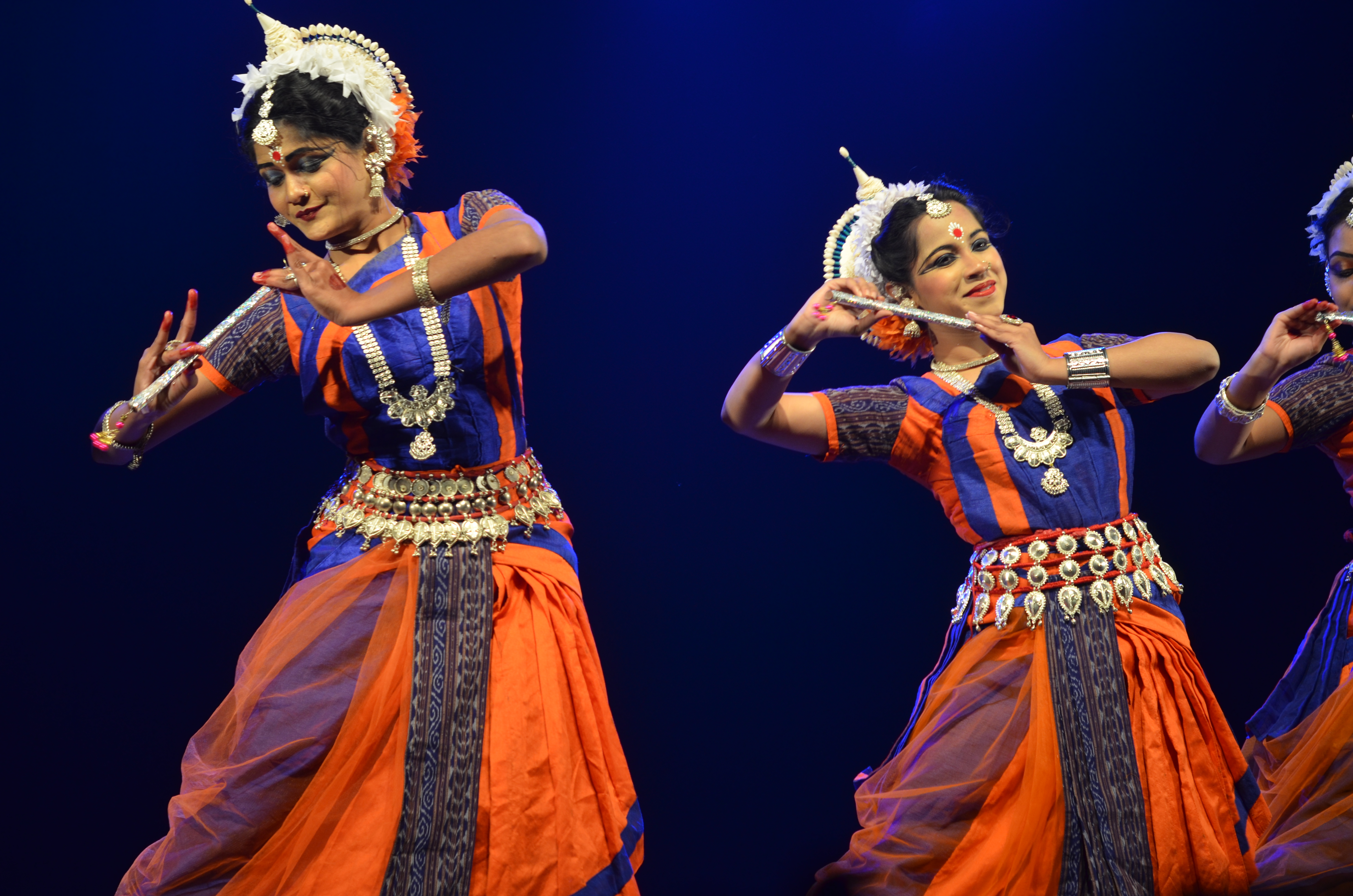 A performance of the Odissi dance, a classical dance form from the state of Odisha in east India. Photograph taken during the concluding ceremony of the International Odissi Festival - 2018 organised by the Guru Kelucharan Mohapatra Odissi Research Centre at Rabindra Mandap, Bhubaneswar, Odisha. ଓଡ଼ିଆ: ଭୁବନେଶ୍ୱର ରବୀନ୍ଦ୍ର ମଣ୍ଡପରେ ଅନୁଷ୍ଠିତ ଆନ୍ତର୍ଜାତୀୟ ଓଡ଼ିଶୀ ମହୋତ୍ସବ-୨୦୧୮ରେ ଓଡ଼ିଶୀ ନୃତ୍ୟ ପରିବେଷଣ । ଏହି ମହୋତ୍ସବ ଗୁରୁ କେଳୁଚରଣ ମହାପାତ୍ର ଓଡ଼ିଶୀ ଗବେଷଣା କେନ୍ଦ୍ର ଦ୍ୱାରା ପ୍ରତିବର୍ଷ ଆୟୋଜିତ ହୁଏ ।